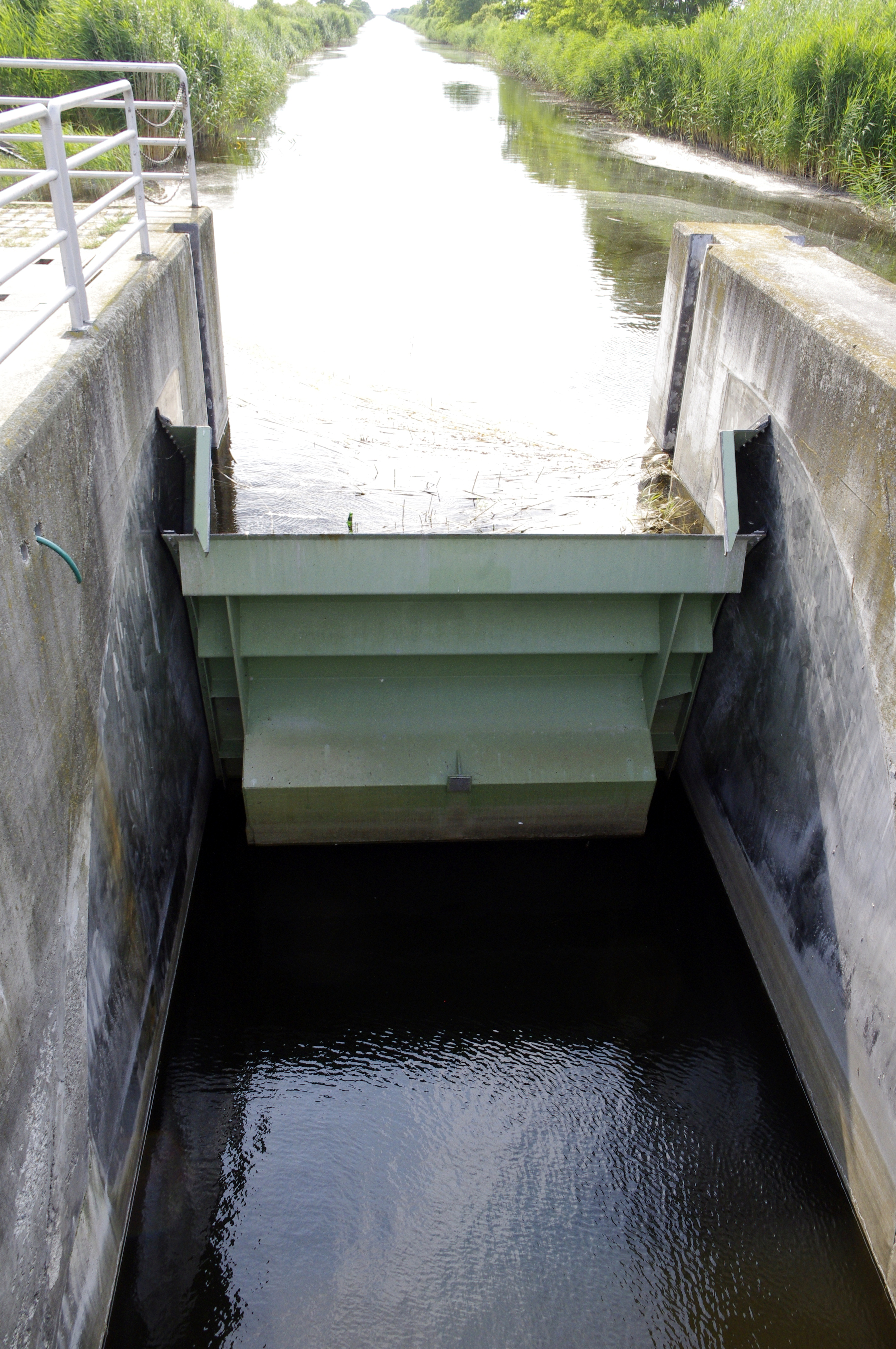 Fertő-Hanság main canal